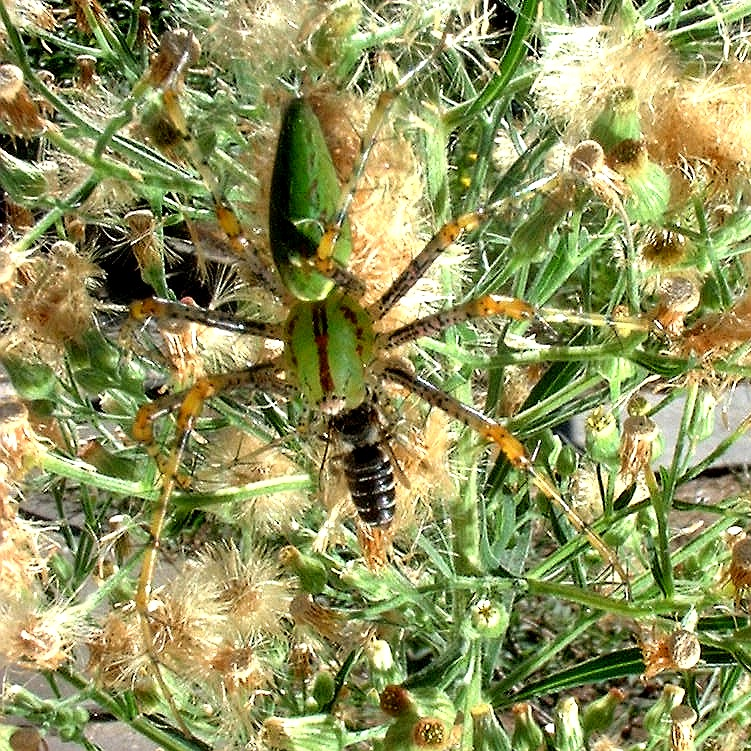 Lynx Spider with bee (low resolution)